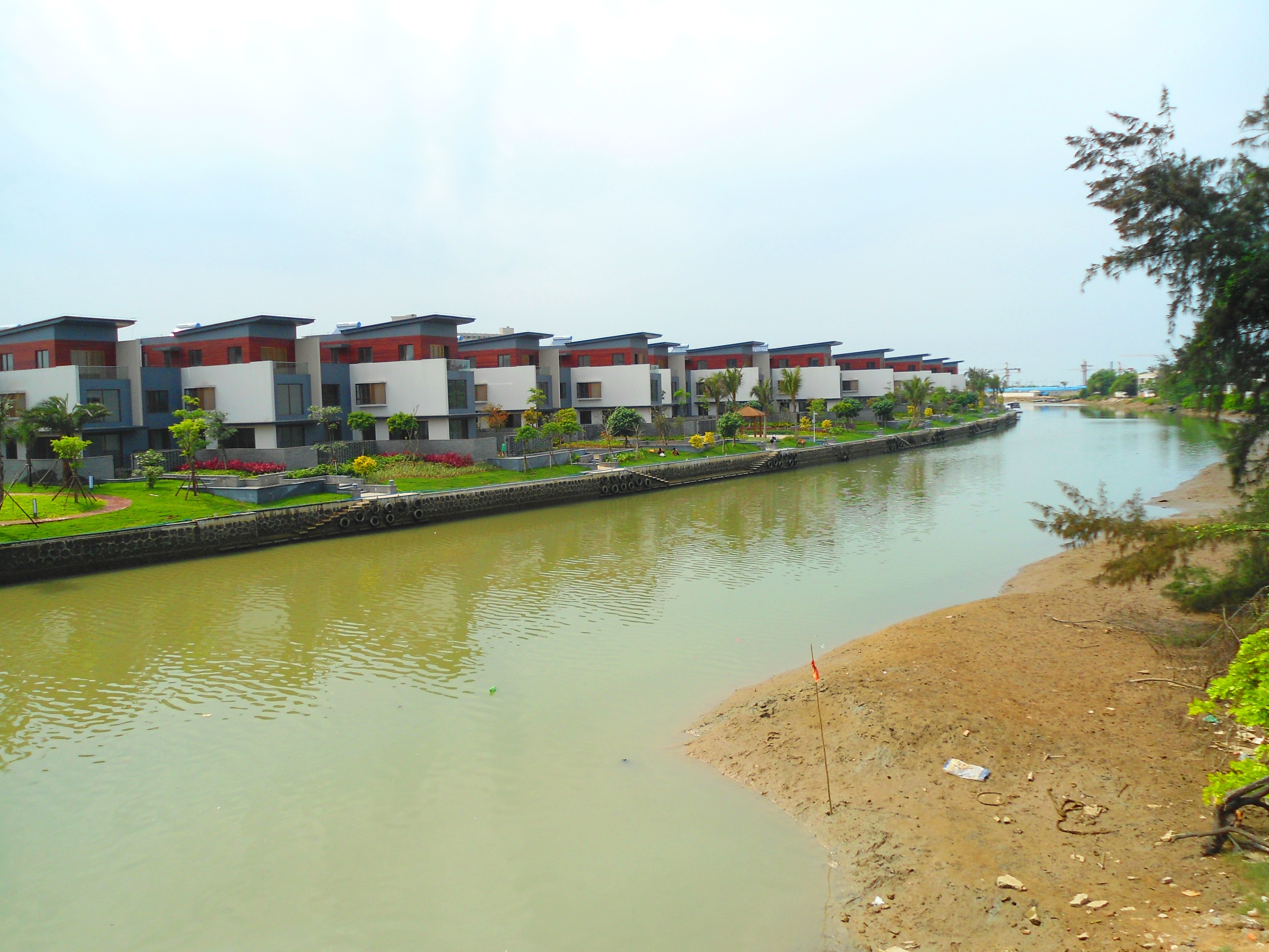 Xinbu Island, Hainan, China.